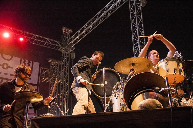 MUTEMATH at NH7 Weekender 2013